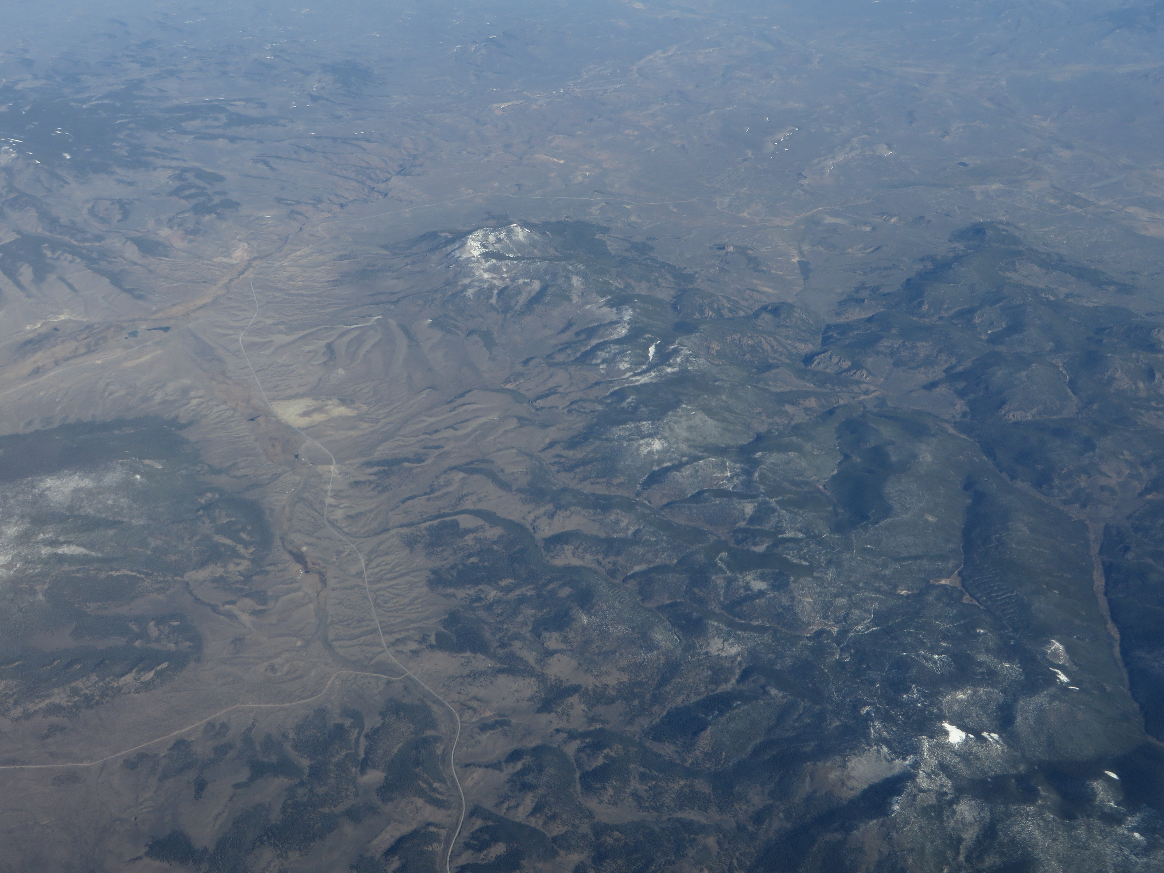 The Cochetopa Hills are a ridge of uplands on the Continental Divide in southern Colorado, United States. The ridge bridges the southern terminus of the Sawatch Range to the northern terminus of the La Garita Mountains. The Cochetopa Hills are characterized by rolling terrain with peaks between 11,000 and 12,000 feet (3,400 and 3,700 m) and noteworthy volcanic geology. The Sawatch Range to the northeast and the La Garita Mountains to the south are characterized by higher peaks. On USGS topographic maps, the area labeled as the Cochetopa Hills is roughly bounded by 13,269-foot (4,044 m) Antora Peak, the town of Sargents, the drainage of Cochetopa Creek, and the town of Saguache. North Pass on State Highway 114 and the backcountry Cochetopa Pass allow passage from the upper Rio Grande drainage on the east to the upper Gunnison River drainage to the west. The practice of naming mid-elevation upland areas in central and southern Colorado using the word hills was also illustrated by the naming of the similar uplands between the upper Arkansas valley and South Park: the Arkansas Hills.